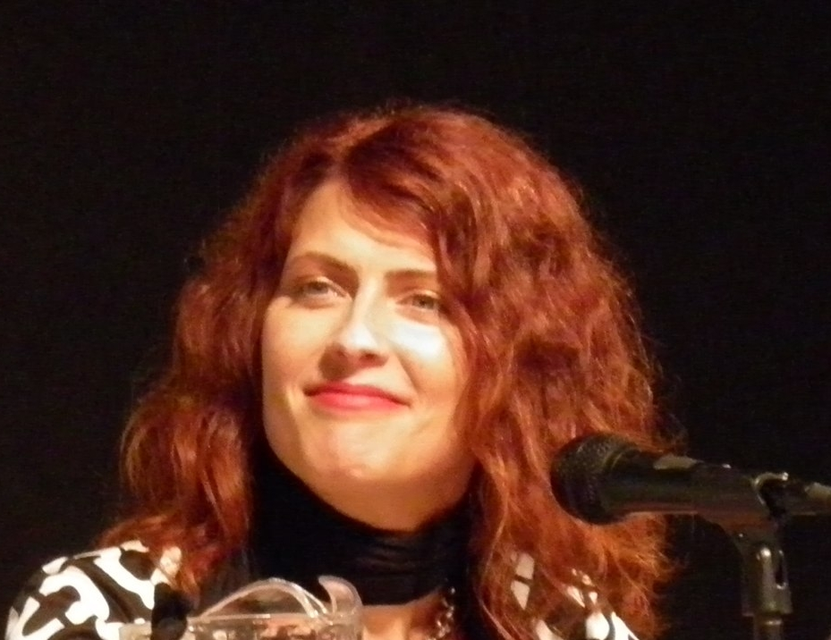 Voice actress Vanessa Marshall at the 2011 San Diego Comic-Con International.